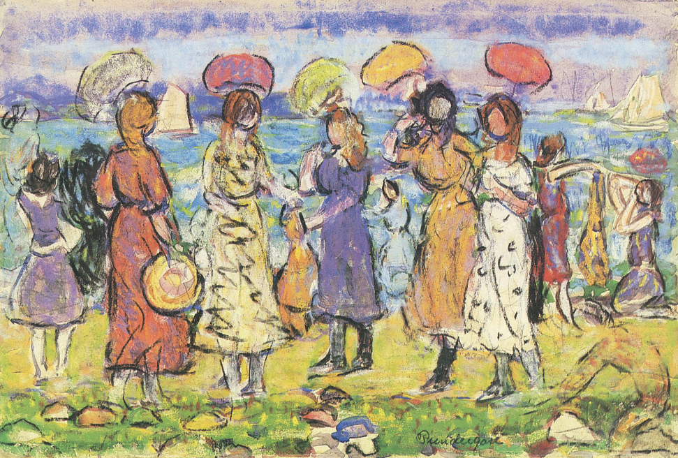 Painting Sunny Day at the Beach